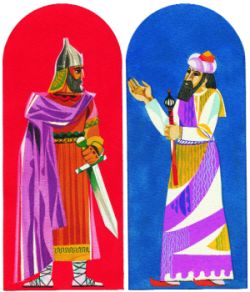 Arshak II and Shapur II